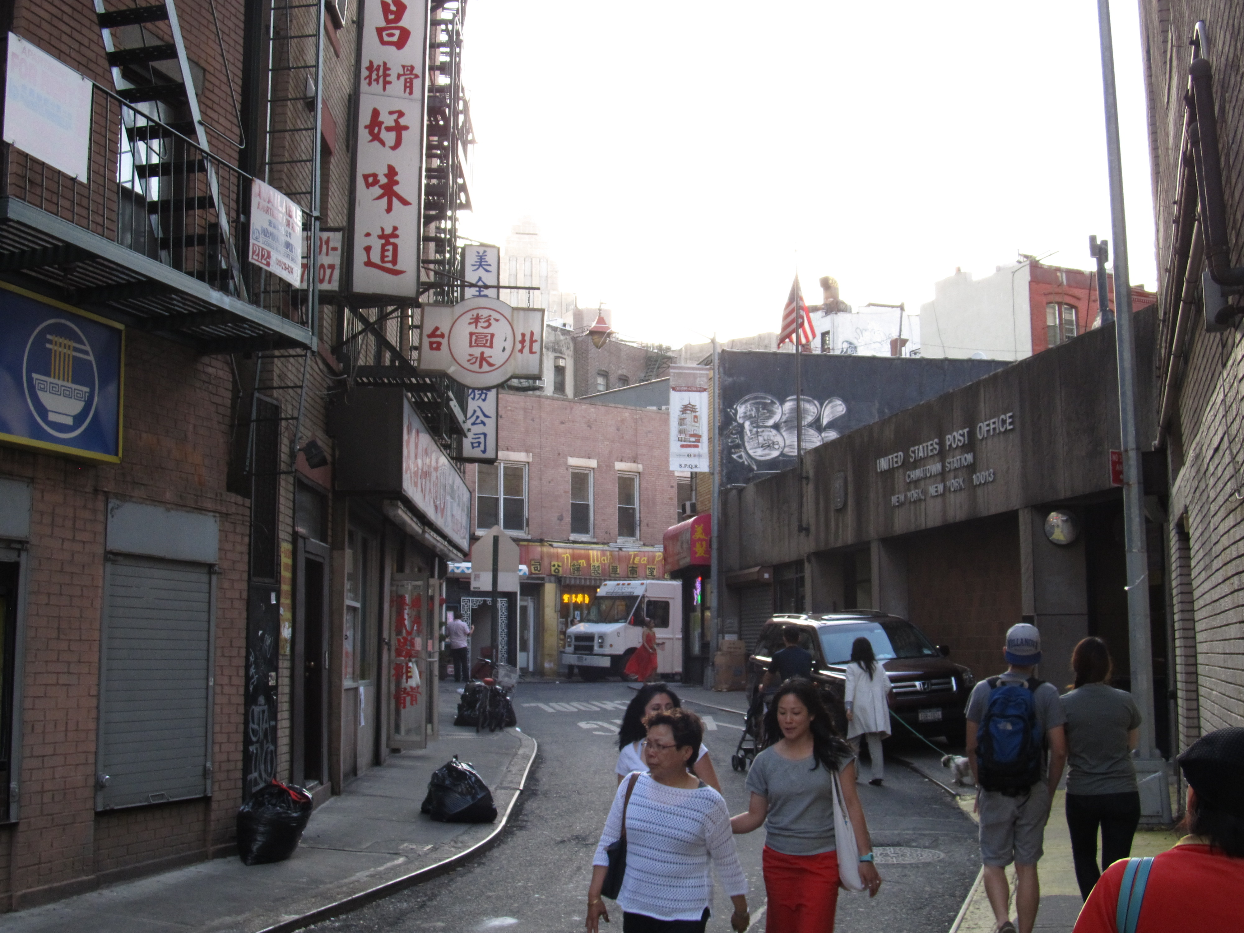 Doyers Street is a street in the heart of Chinatown in the New York City borough of Manhattan. It is one block in length and has a sharp bend in the middle. The street, which is about 200 feet long, runs south and then southeast from Pell Street to Chatham Square. The street is the site of several restaurants and the Chinatown branch of the United States Postal Service at 6 Doyers St. The Nom Wah Tea Parlor opened at 13 Doyers Street in 1927, and is still in operation. Other longstanding business include Ting's Gift Shop at 18 Doyers. The street is also known for its barber shops and hair stylists. Early in the century, the bend in the street became known as "the Bloody Angle" because of numerous shootings among the Tong Gangs of Chinatown that lasted into the 1930s. Hatchets were frequently used, leading to the creation of the expression, "hatchet man". In 1994, law enforcement officials said that more people died violently at the "Bloody Angle" than at any other street intersection in the United States.